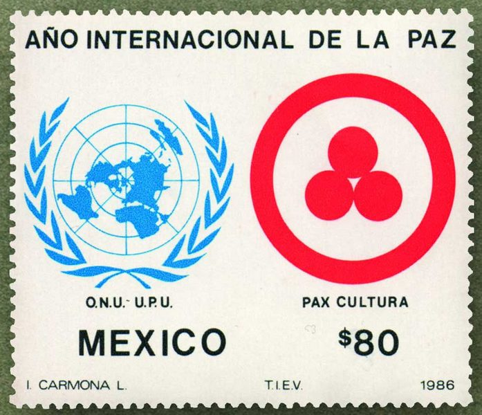 Mexico stamp with UN emblem and Roerich symbol.